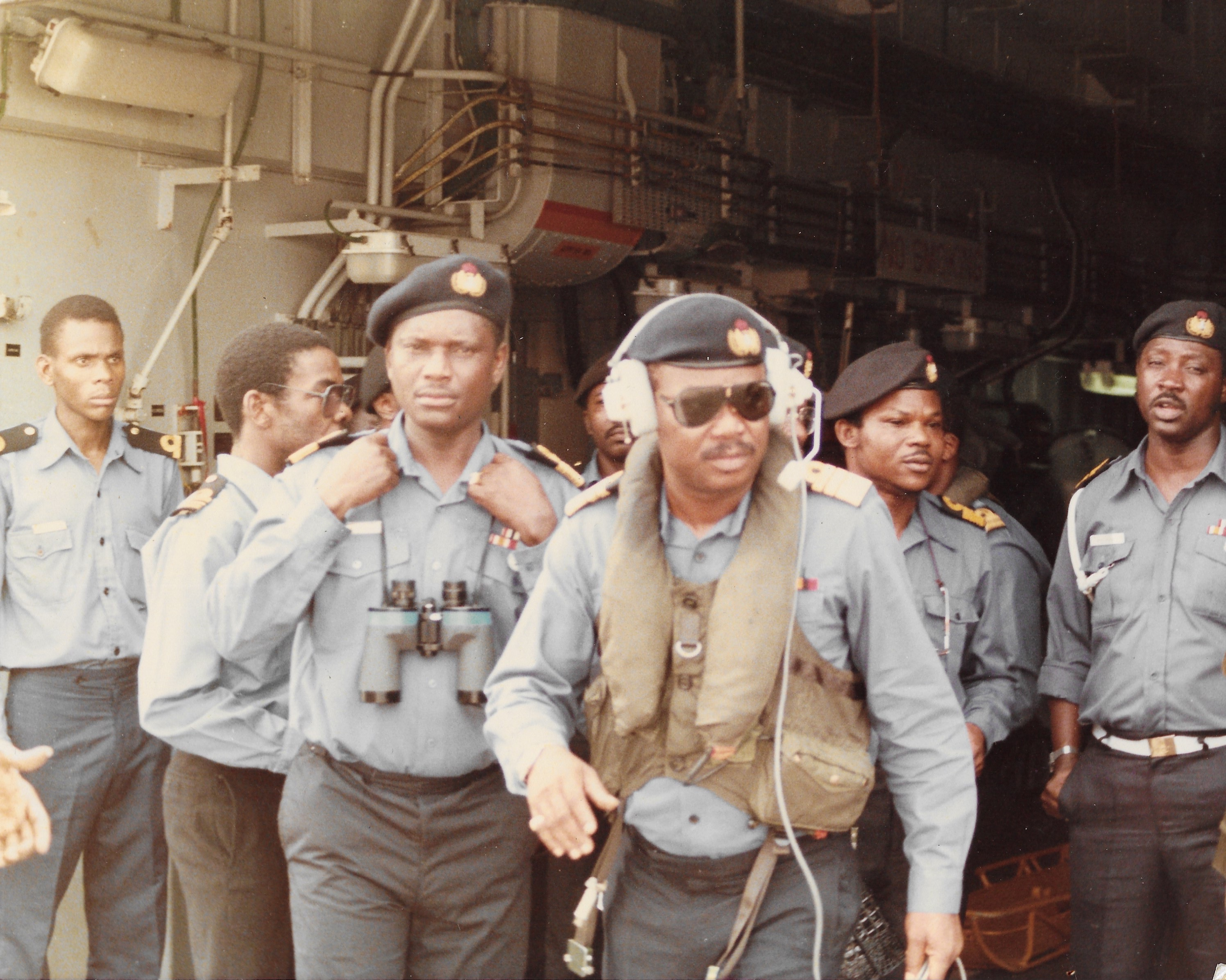 Nigerian Navy Military exercise Yorùbá: Vice Admiral Patrick Seubo Koshoni - Adaṣe ologun lori ọkọ oju omi